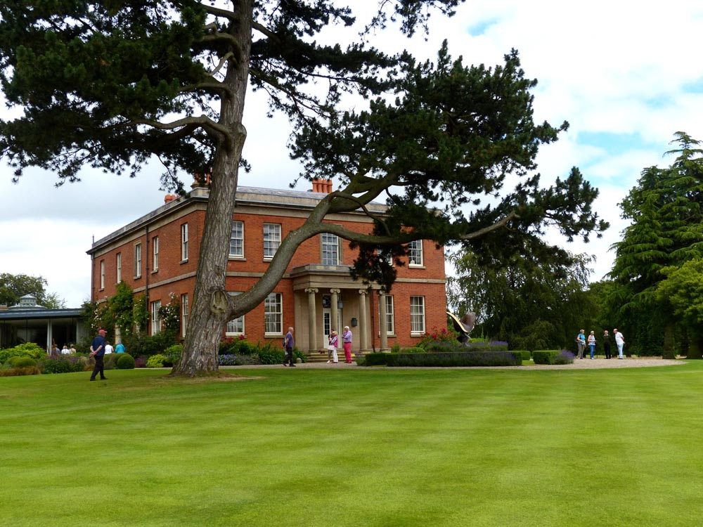 Cogshall Grange